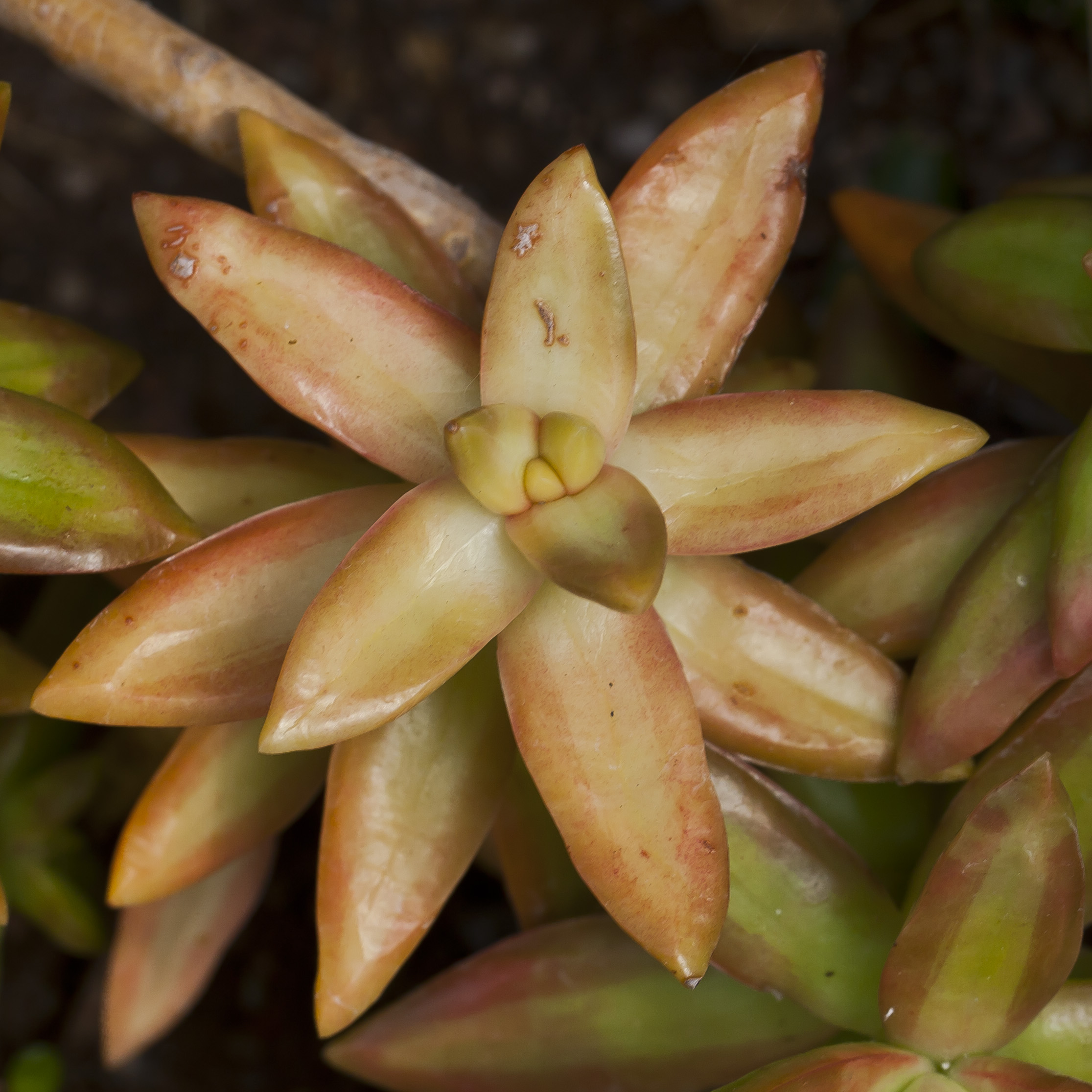 Sedum nussbaumerianum, Tallinn Botanic Garden, Estonia